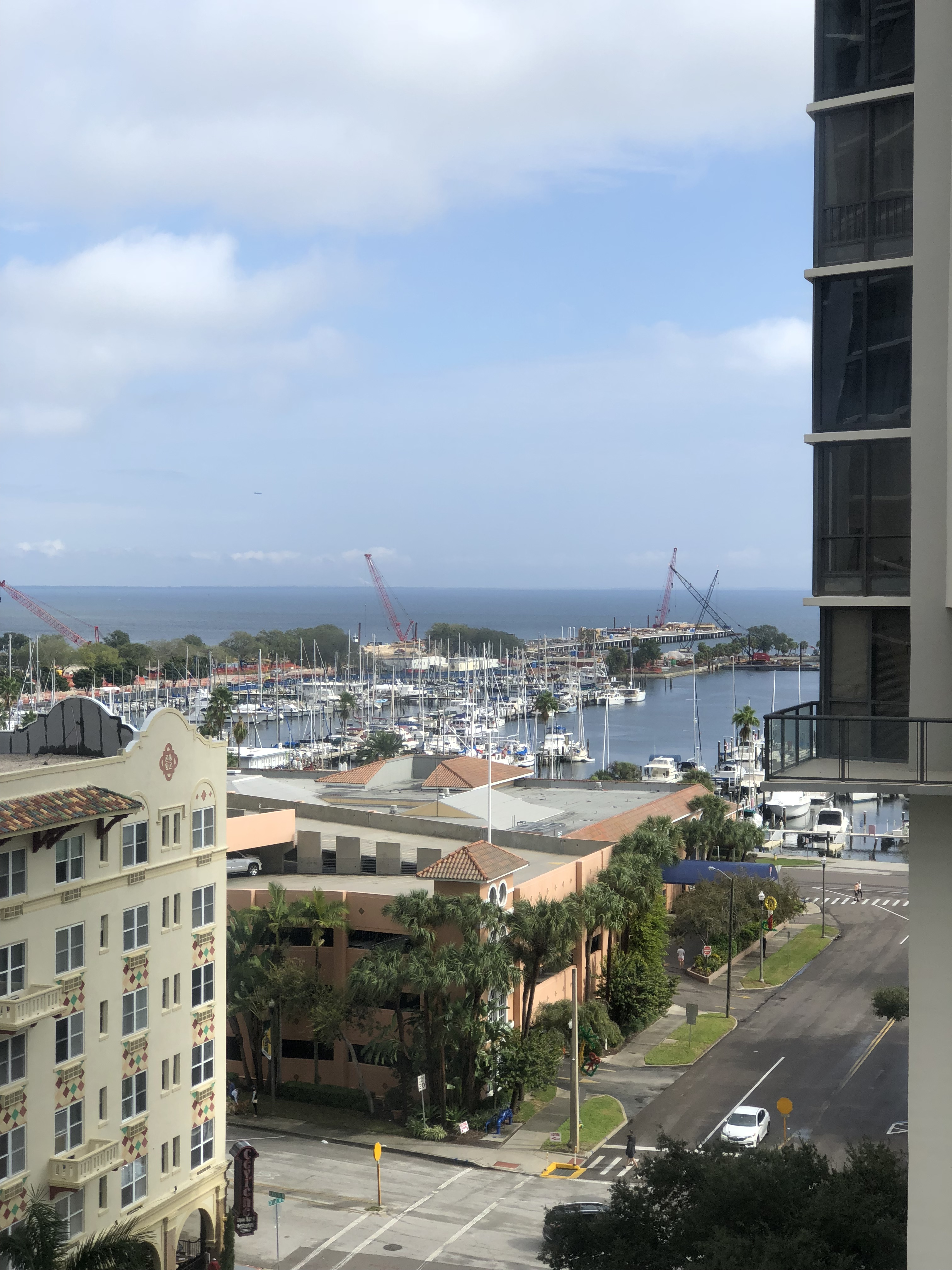 View of the St. Petersburg Pier's construction in December 2018.